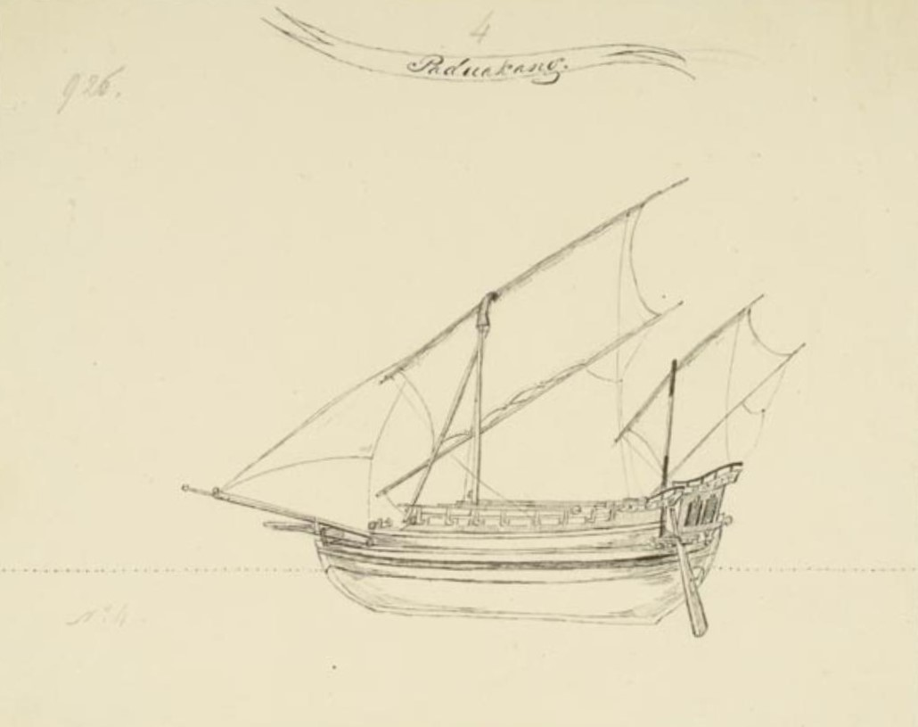 Drawing of a native vessel from the Dutch East Indies: a Paduakang.